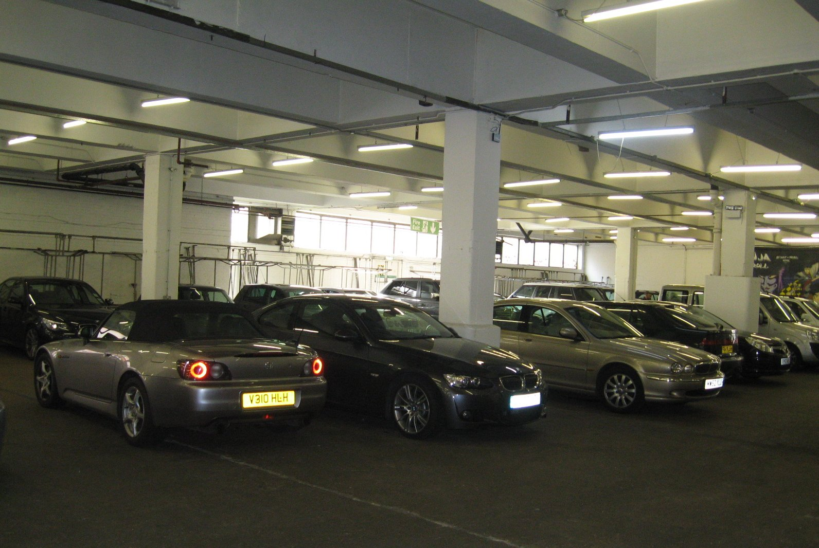 Hanbury Street, London. Modern car park location photographed is on the street's North side and is exactly opposite 28 and 30 Hanbury Street. Confirmed using SatNav.